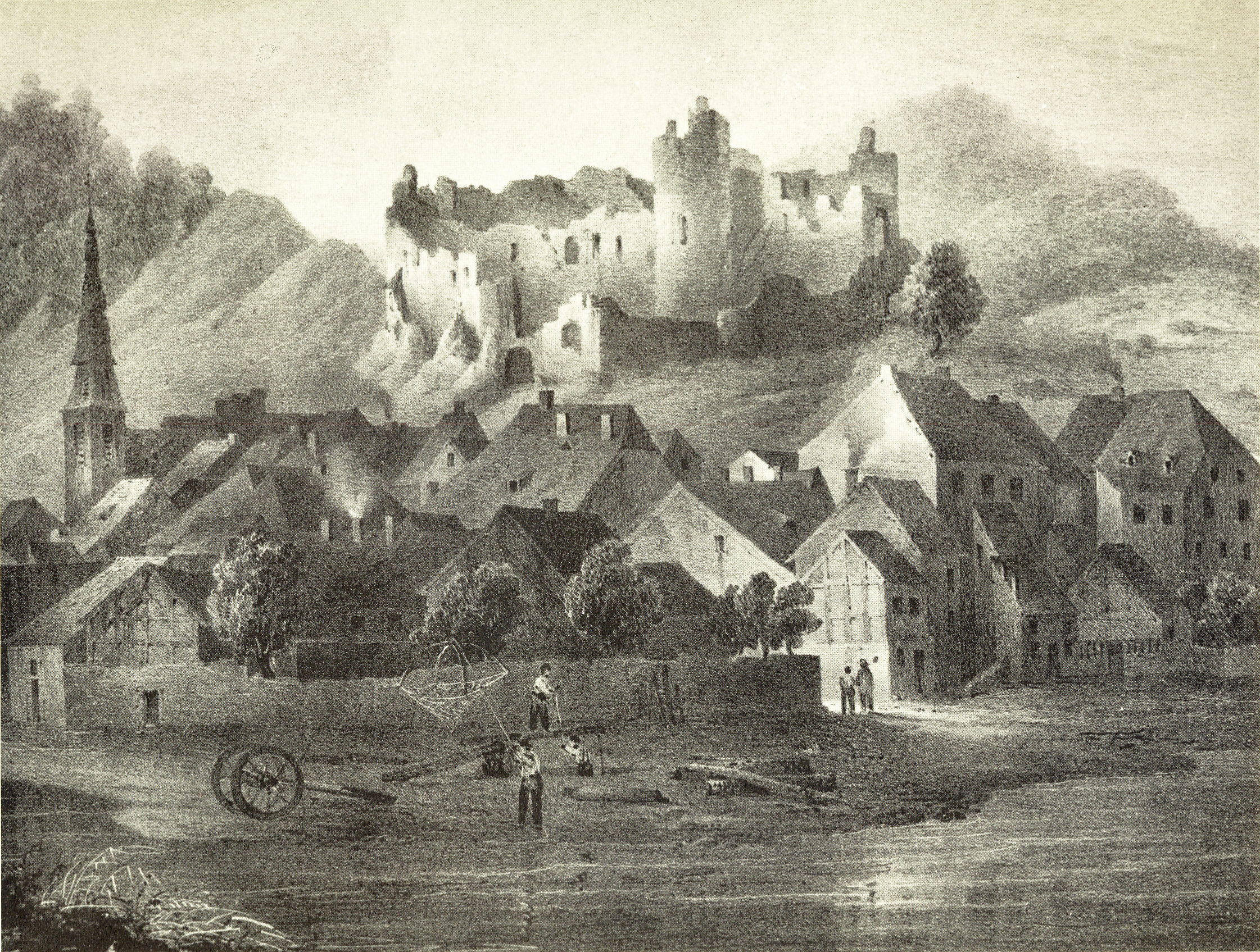 Vue upon Laroche, Belgium. Drawing.